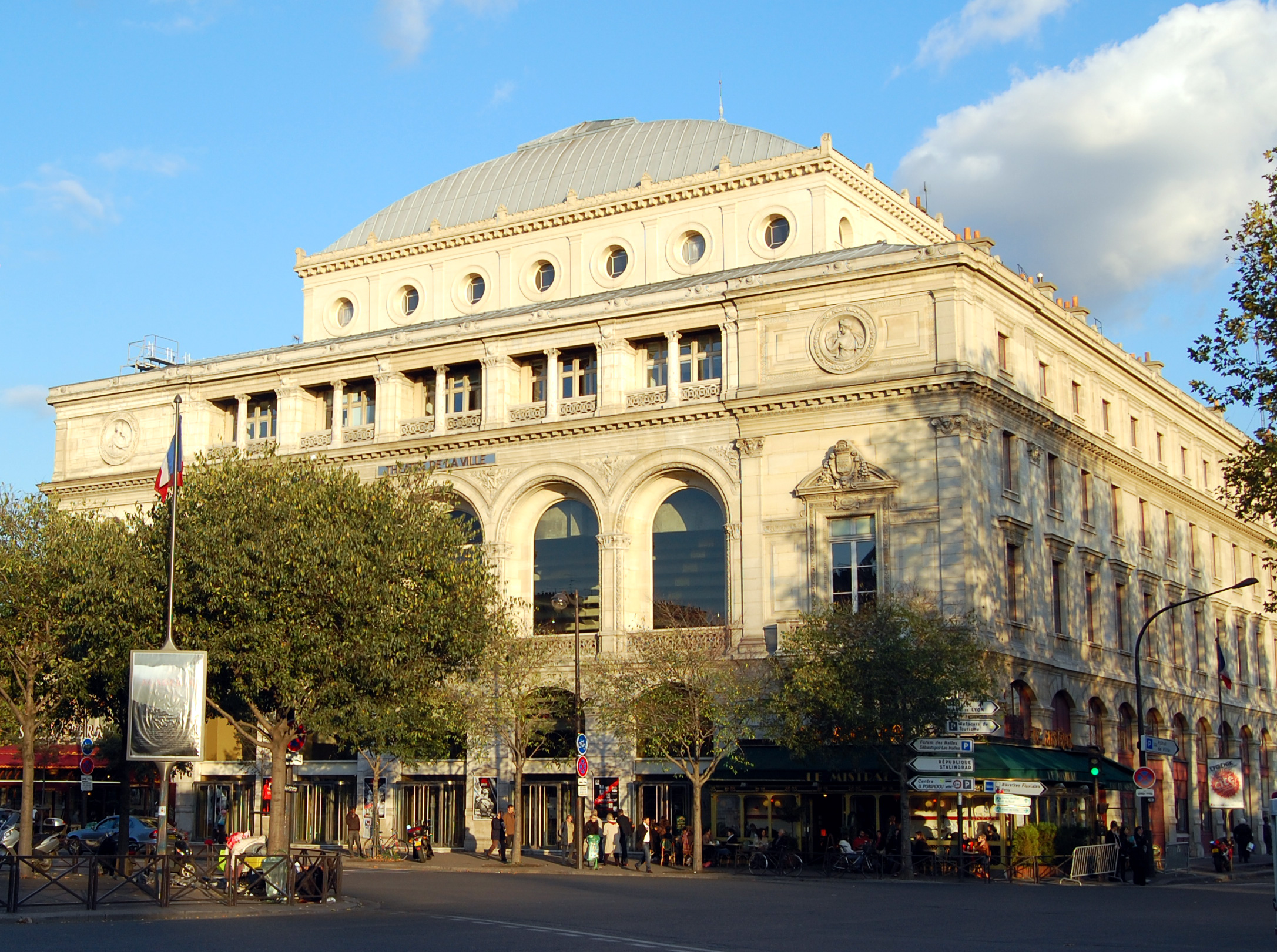 Theatre de la Ville, Chatelet square, Paris, France